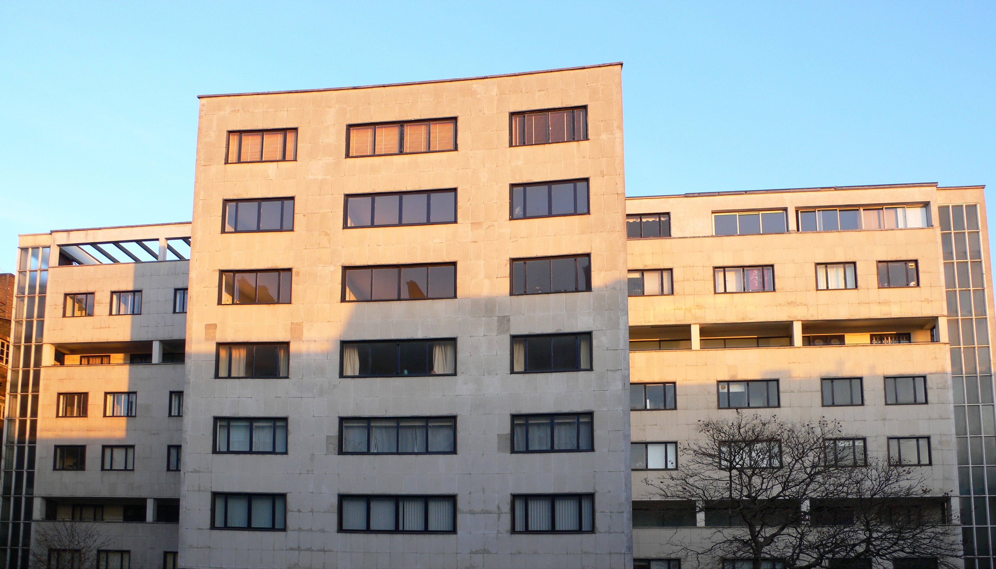 10 Palace Gate, a block of flats designed by Wells Coates, 1939, Kensington, London.